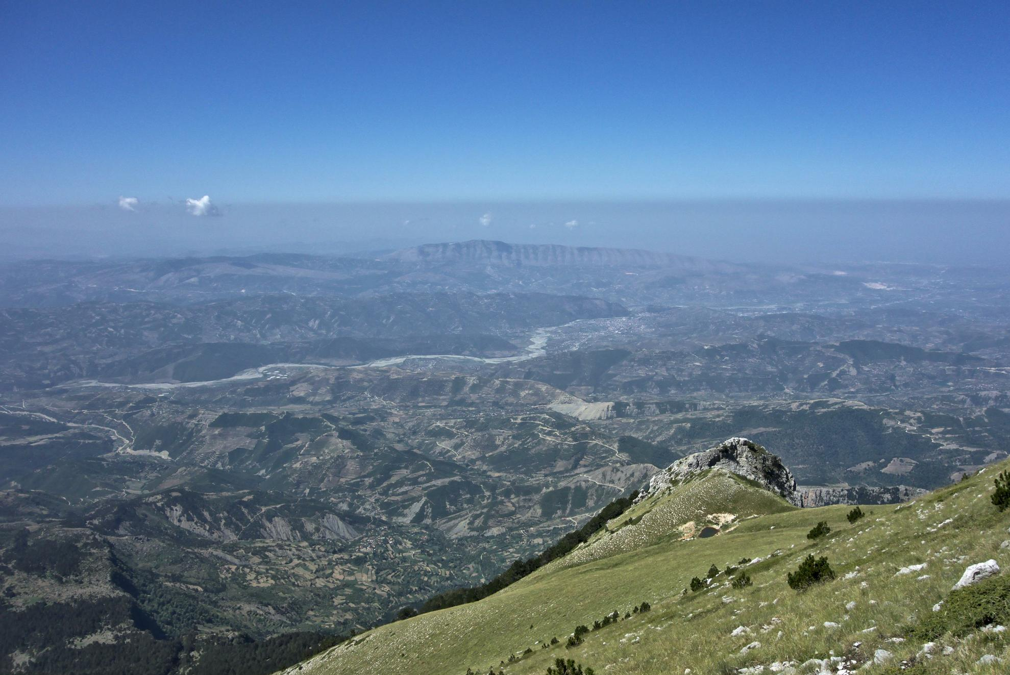 View from Tomorr to Berat and Shpirag mountain with river Osum